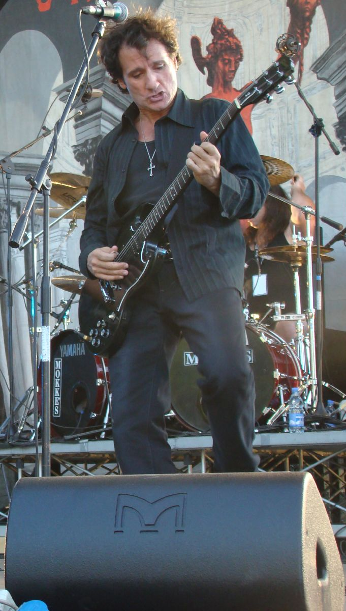 Heavy metal band Virgin Steele